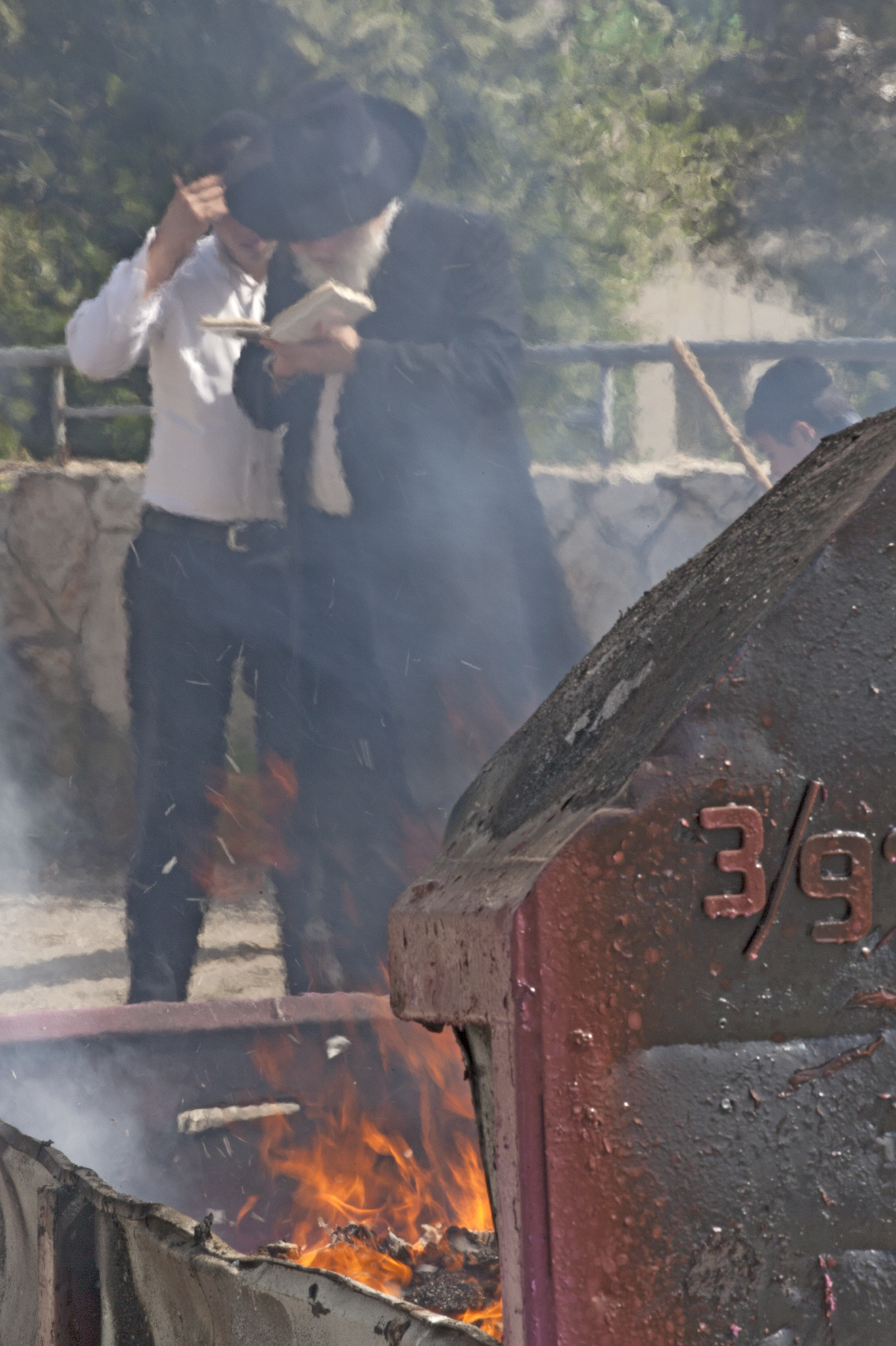 The Burning of the Chametz (14) Chametz Burning Jerusalem